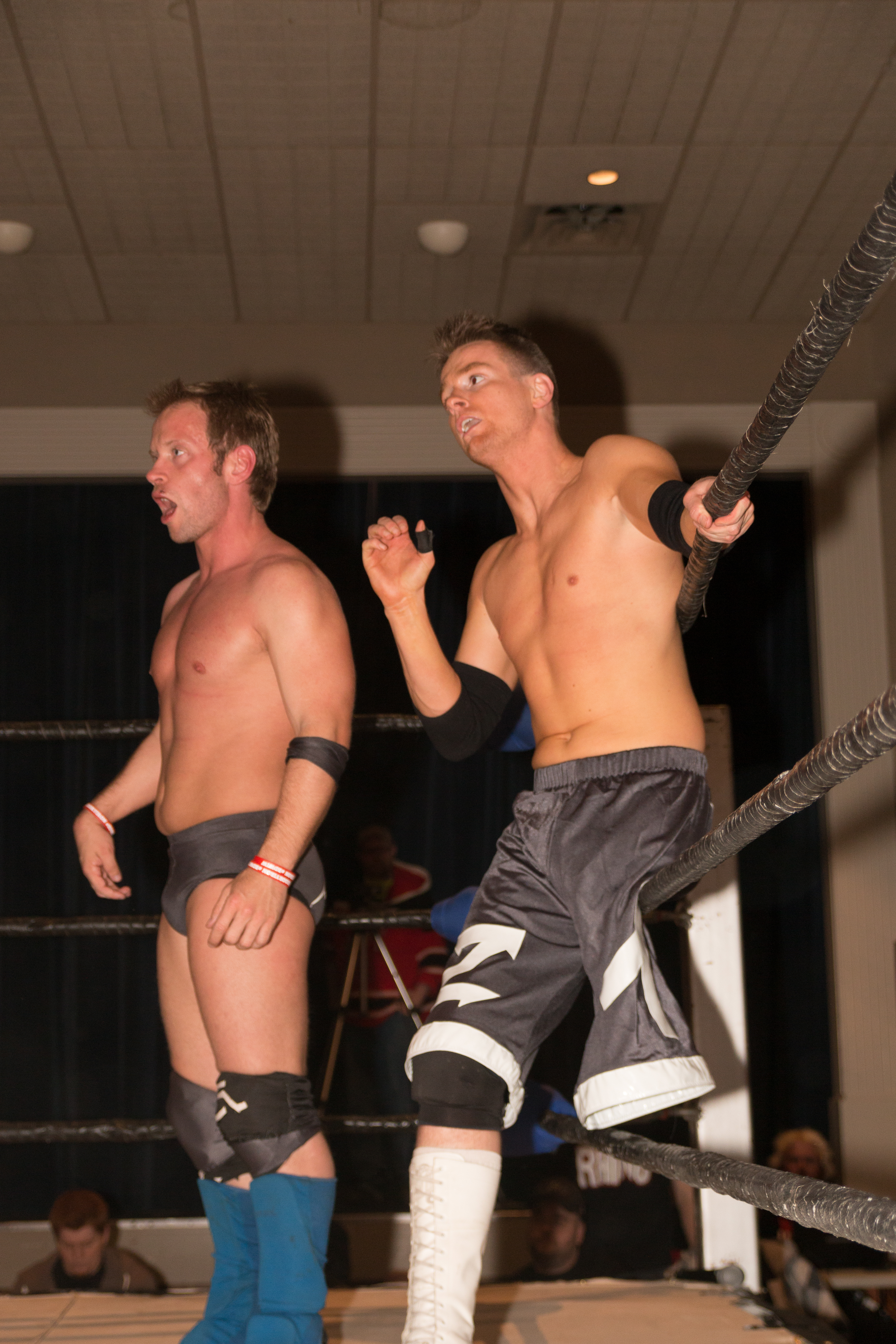 The Handicapped Heroes - Gregory Iron (left) and Zach Gowan - at the Hardcore Roadtrip 2014 wrestling event in London, ON